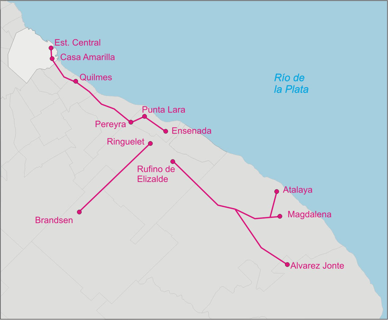 The complete Buenos Aires and Ensenada Port Railway network as of 1898.